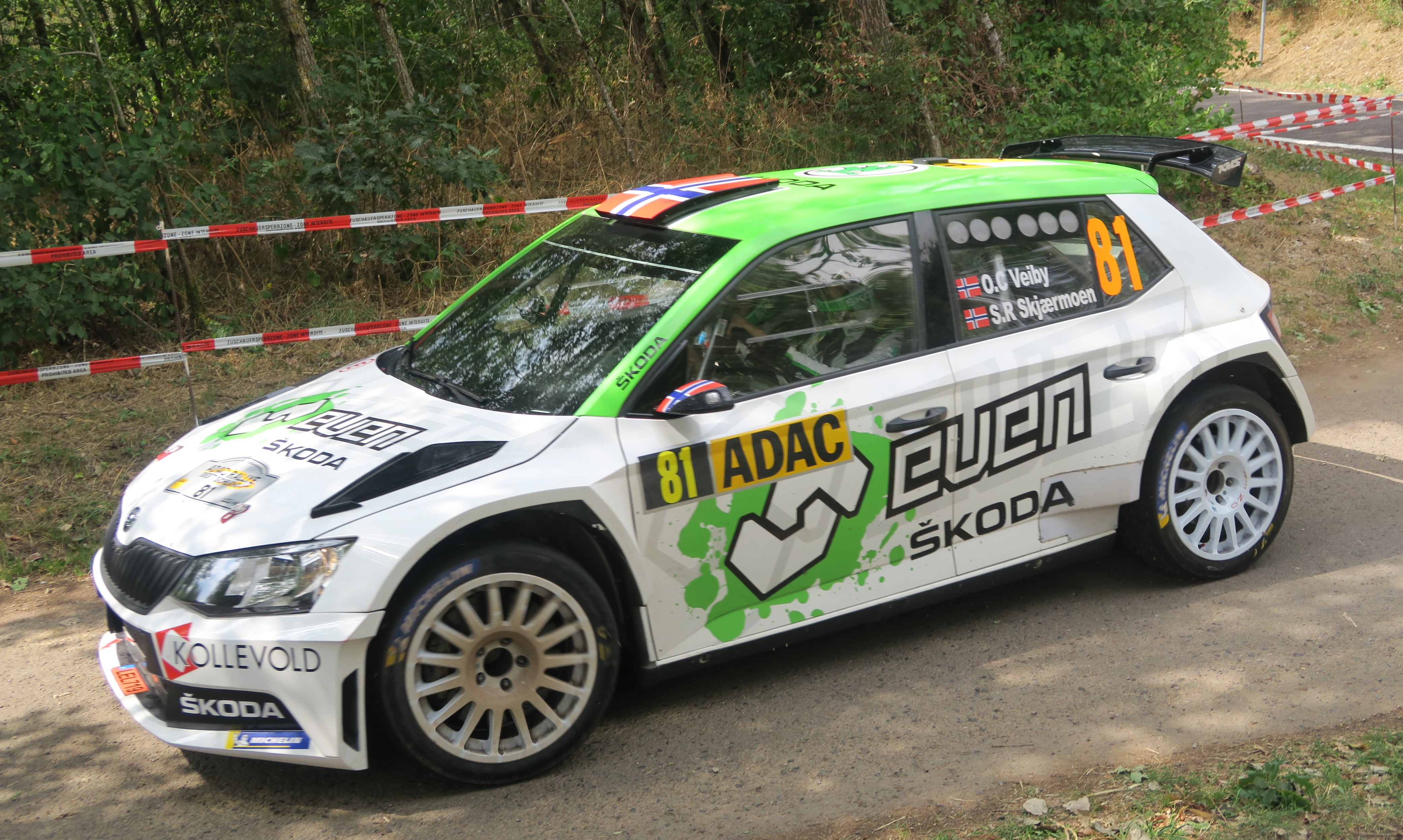 Skoda Fabia R5 von Ole Christian Veiby u. Stig Rune Skjaermoen Deutsche Rallye 2018